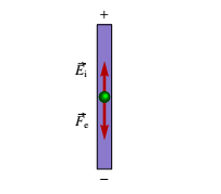 Camp eletrico ind